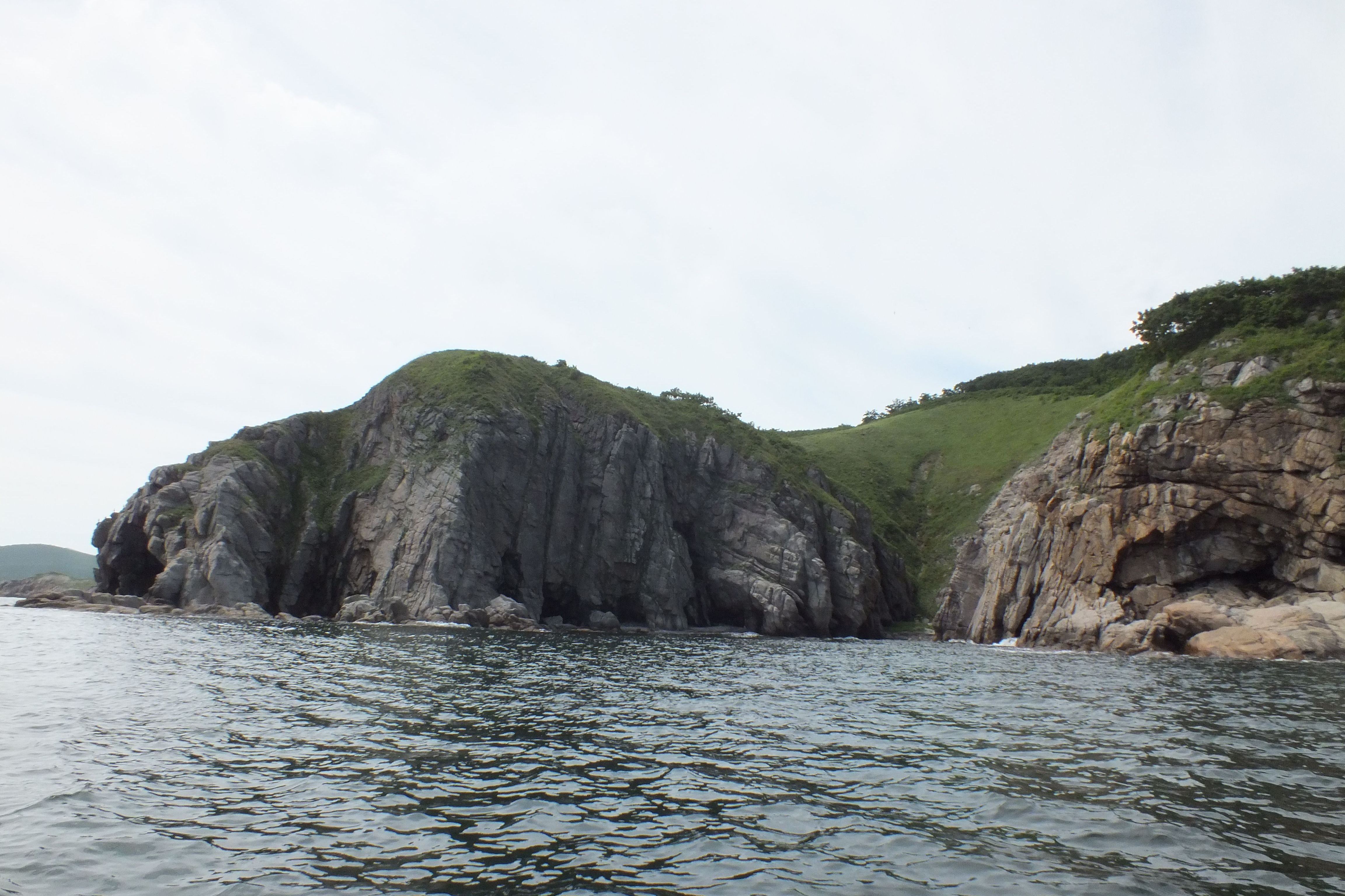 Vladimir Bay